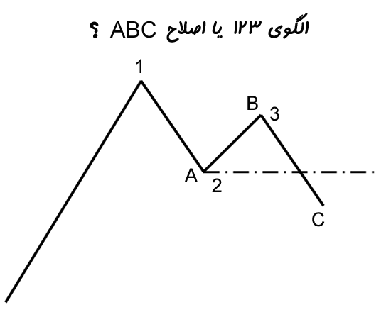 What is different between 123 pattern and ABC correction